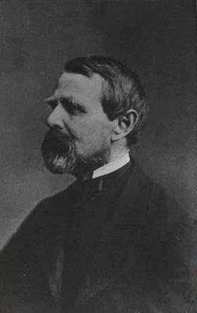 Rudolph Heinrich Carl Conrad Kranold (1819-1889), Danish civil servant and politician